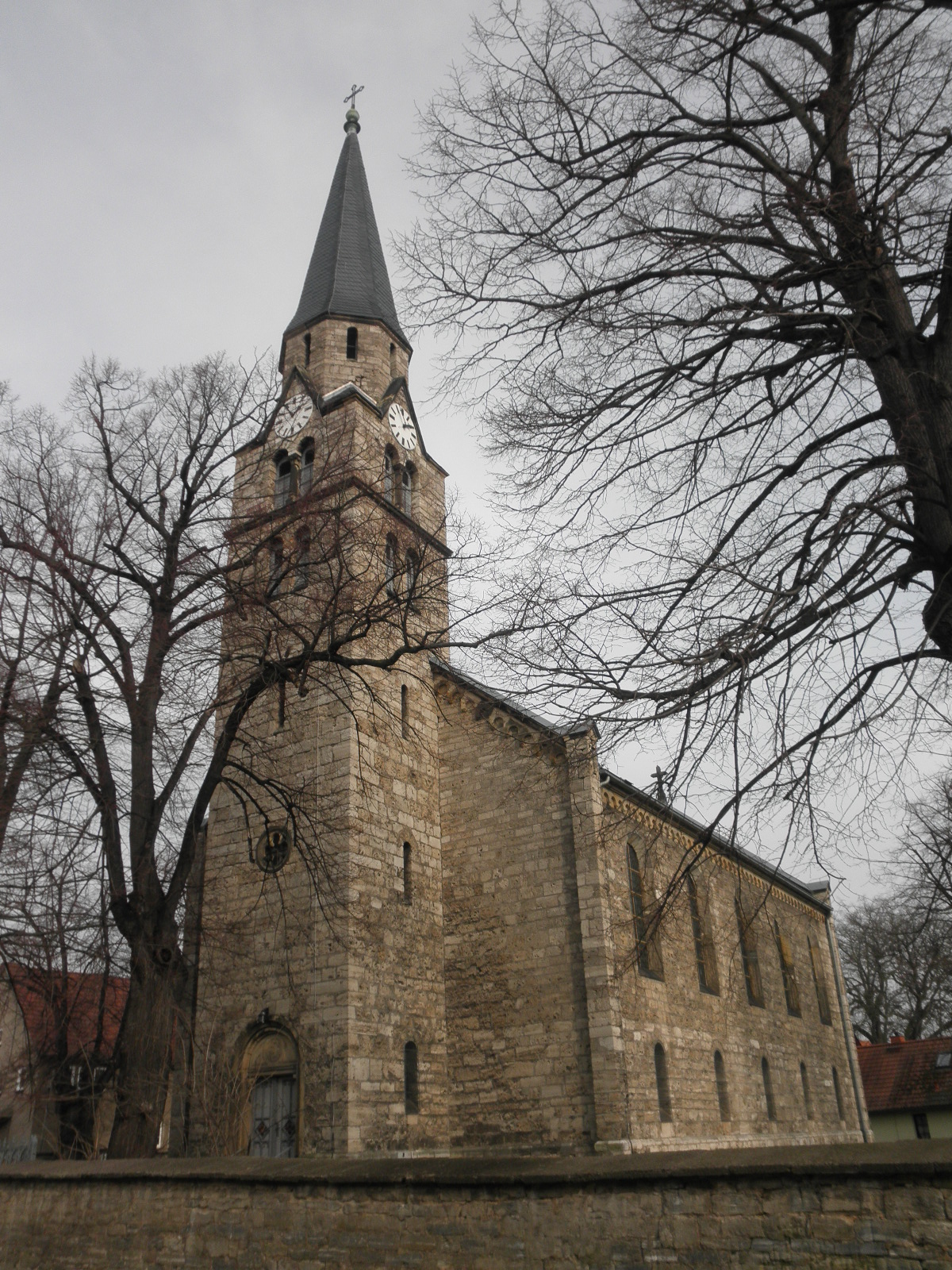 Church in Dachwig in Thuringia